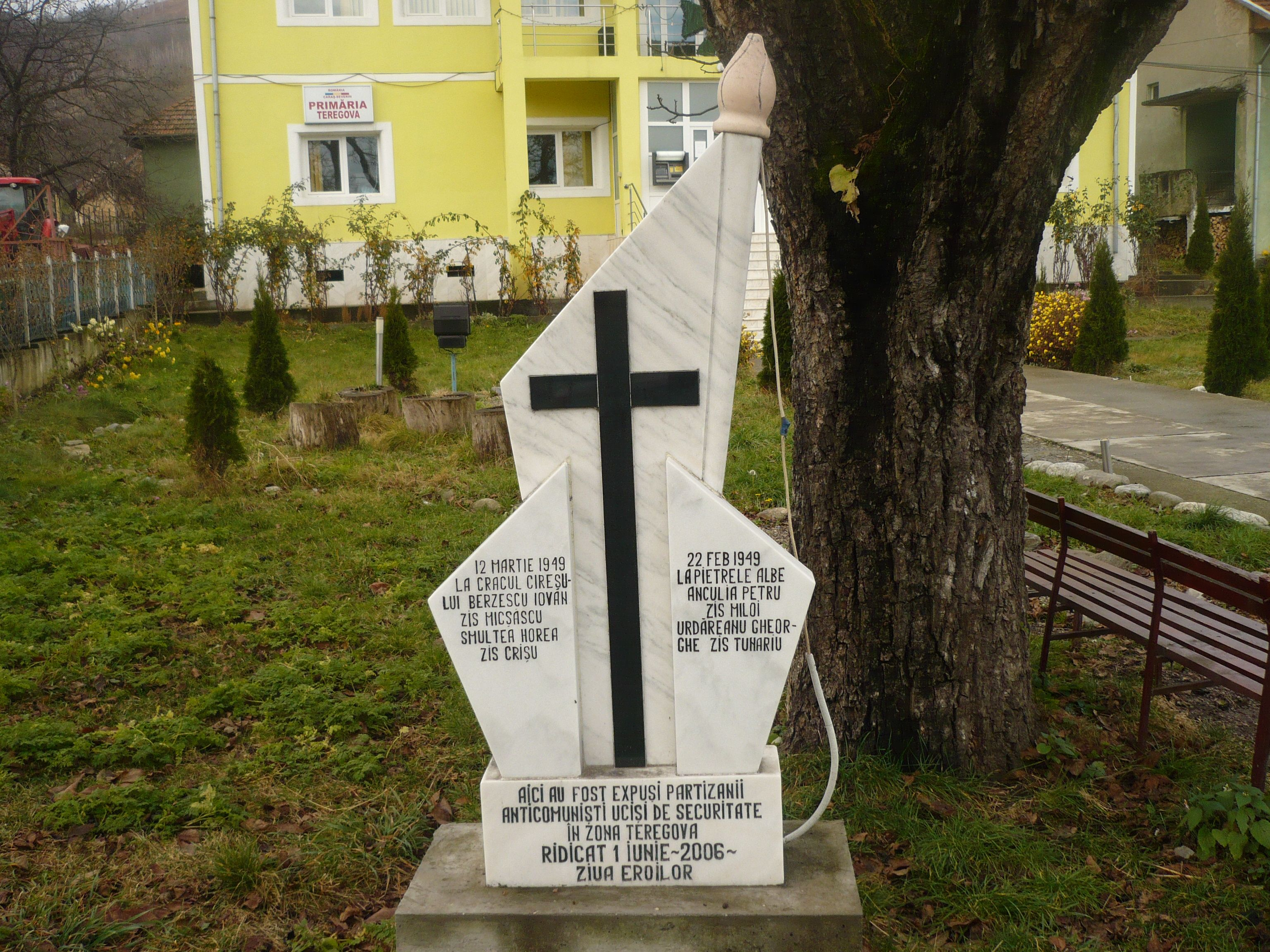 Memorial raised in front of Teregova mayoralty, Romania, commemorating Romanian anticommunist partisans killed in the battle of Pietrele Albe and at Cracul Cireșului